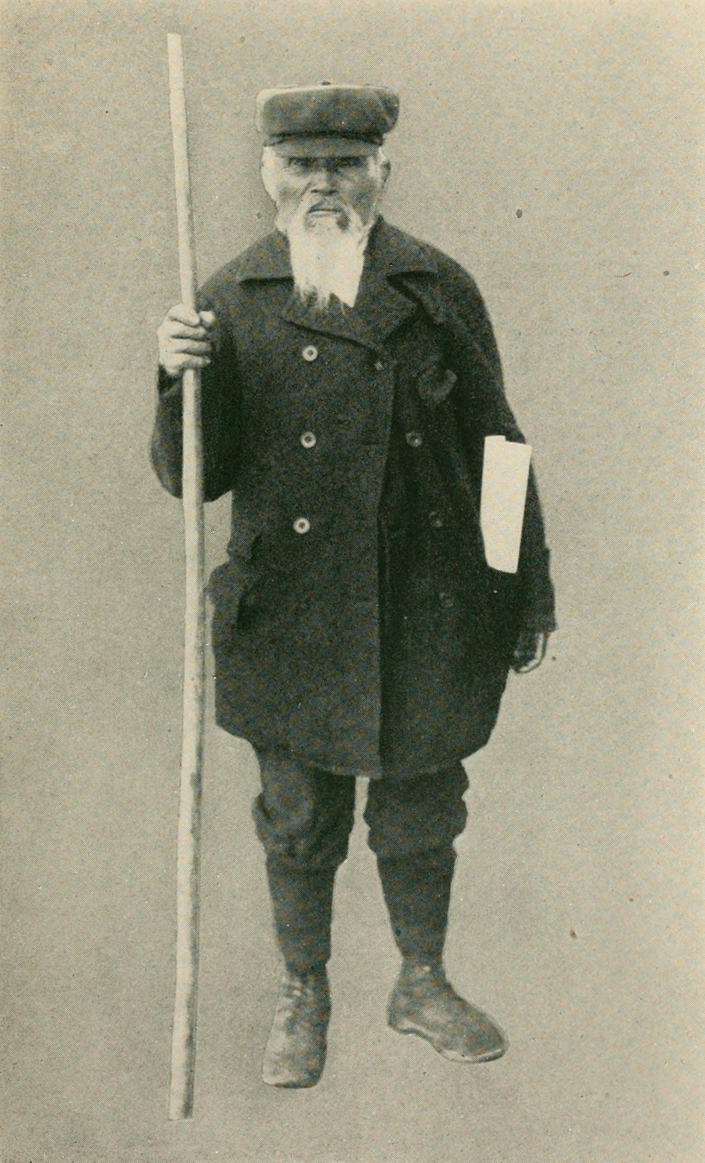 Arthur Wellington Clah - borders cropped